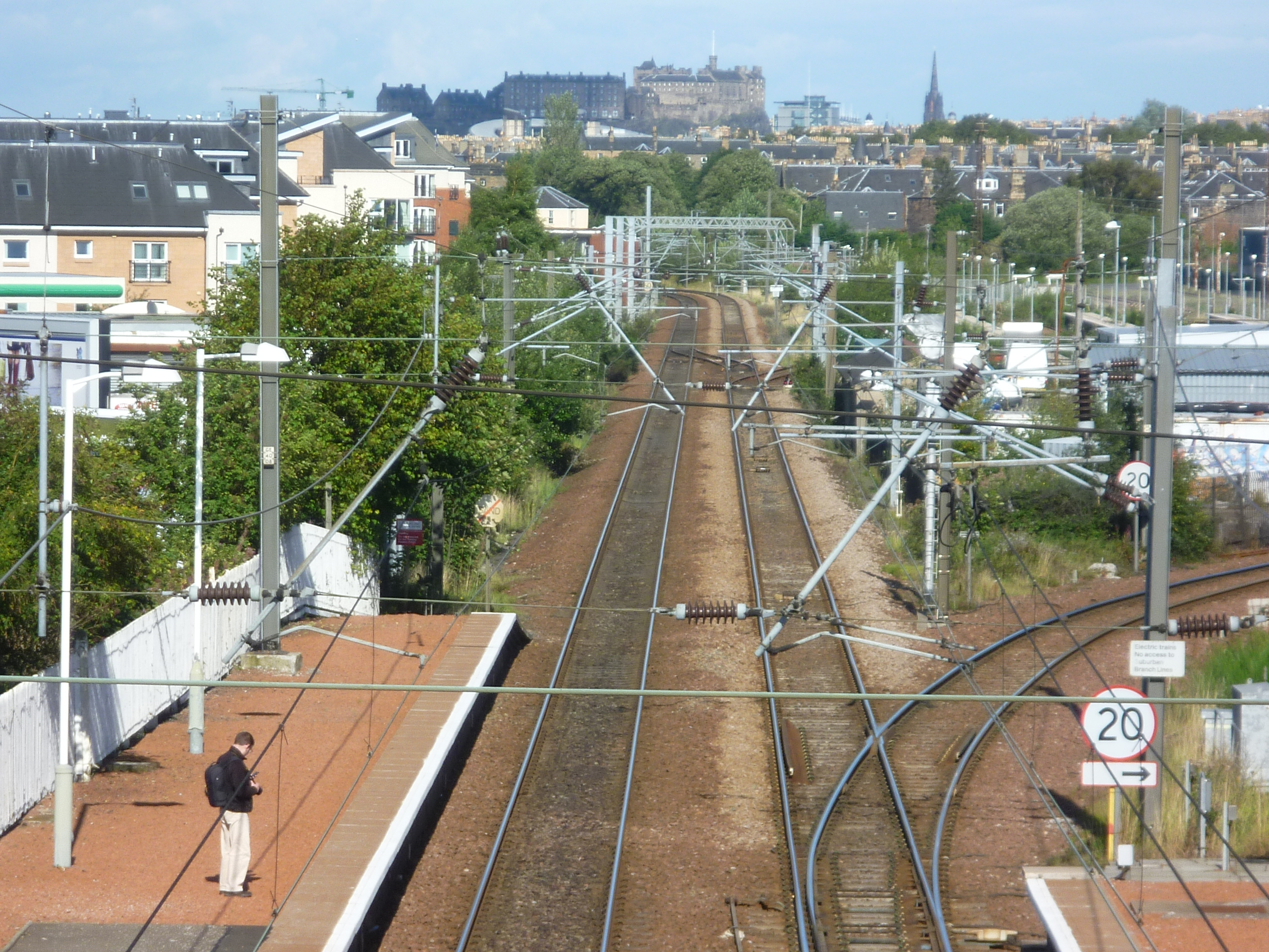 Slateford Station is on the main line between Edinburgh Waverley and Carlisle.